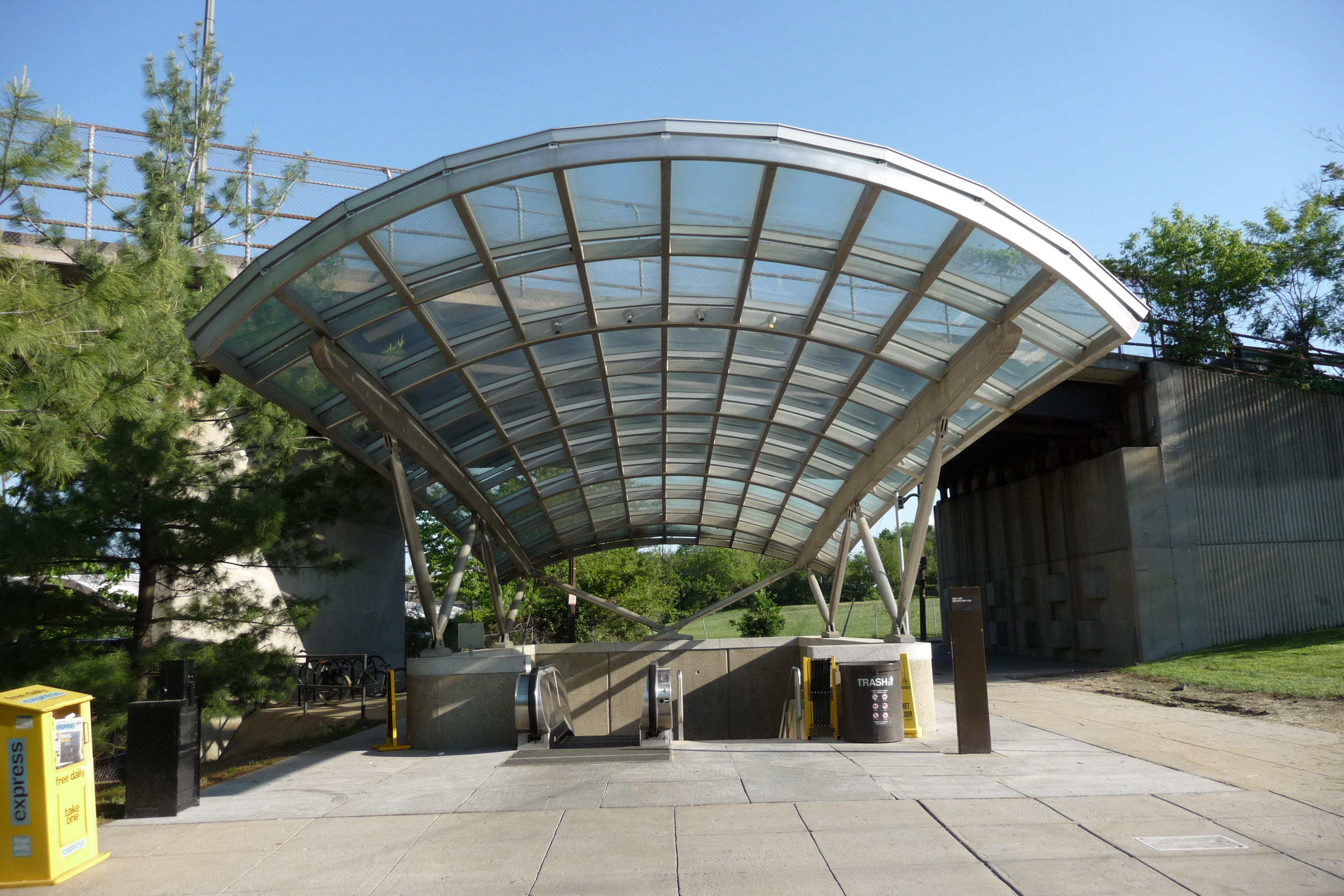 Met Branch Trail directly passes the Brookland-CUA metro station